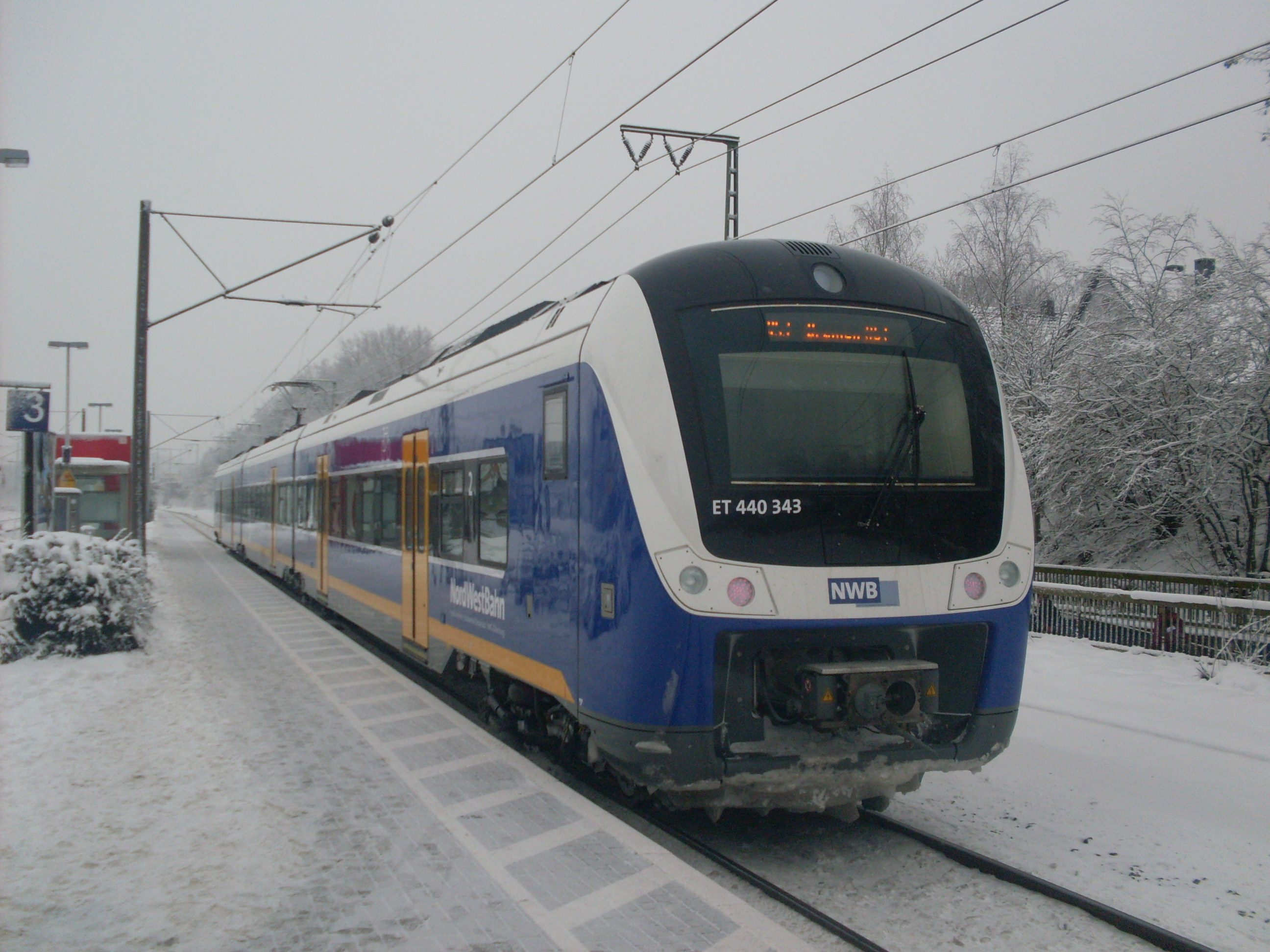 Regio-S-Bahn Bremen NordWestBahn ET 440 Coradia Continental at trainstaion Hude